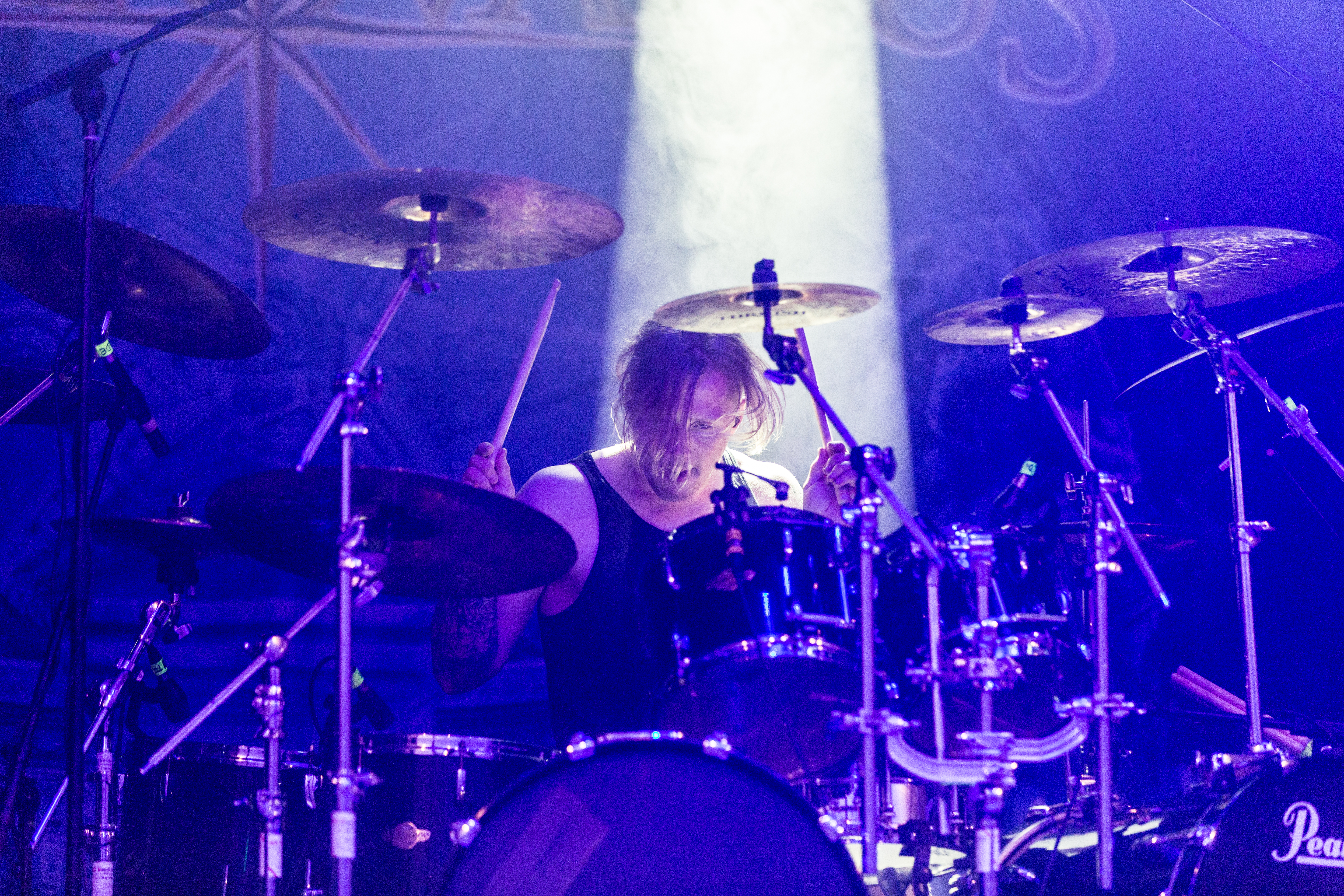 The Finnish power metal band Stratovarius at the Metal Frenzy 2017 in Gardelegen/Germany.